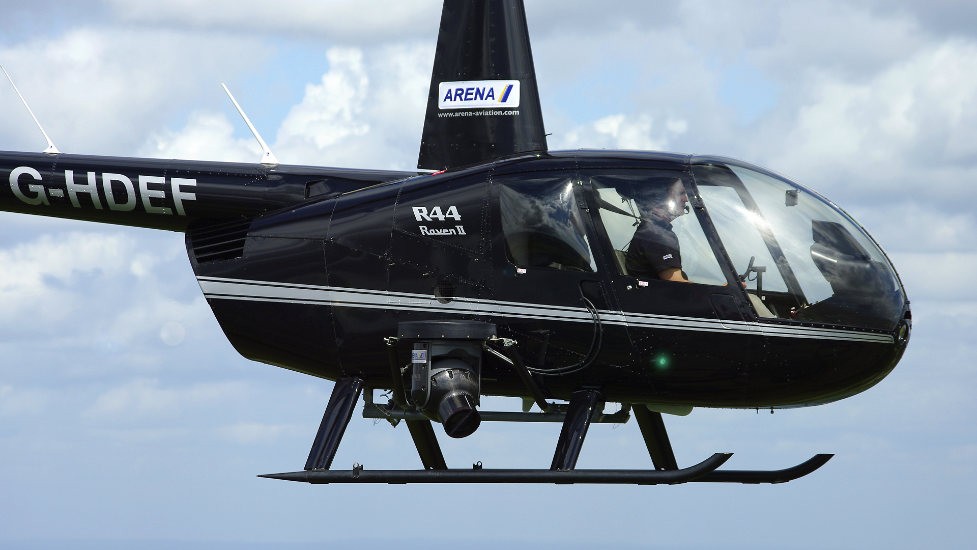 An Arena Aviation R44 Raven II with Cineflex V14 high definition camera system